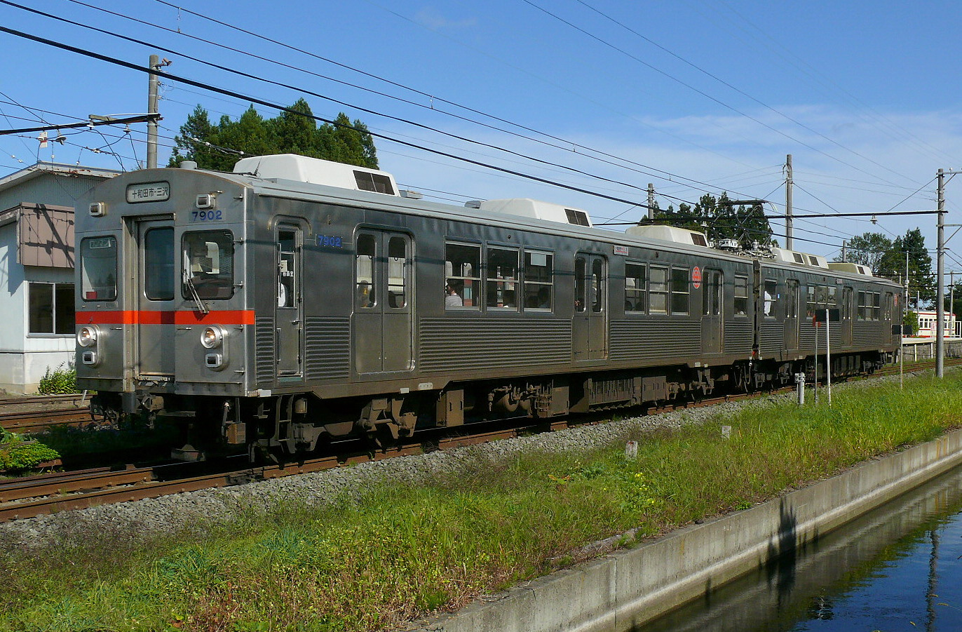 Towada Kanko Electric Railway 7700 series EMU set 7902 at Shichihyaku Station